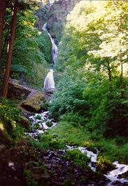 I took this picture of Wahkeenah Falls, in Oregon, on July 22, 1991. This replaces a previous photo, about which there was a fair-use dispute.